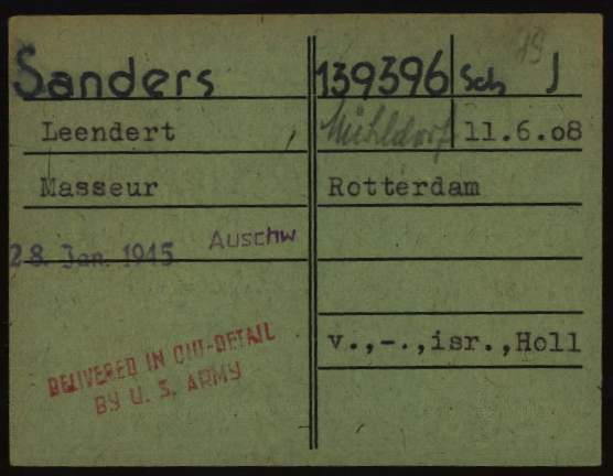 Registration card of Leen Sanders as a prisoner at Dachau Nazi Concentration Camp. Red stamp means he was liberated by the U. S. Army from a Dachau sub-camp (out-detail).